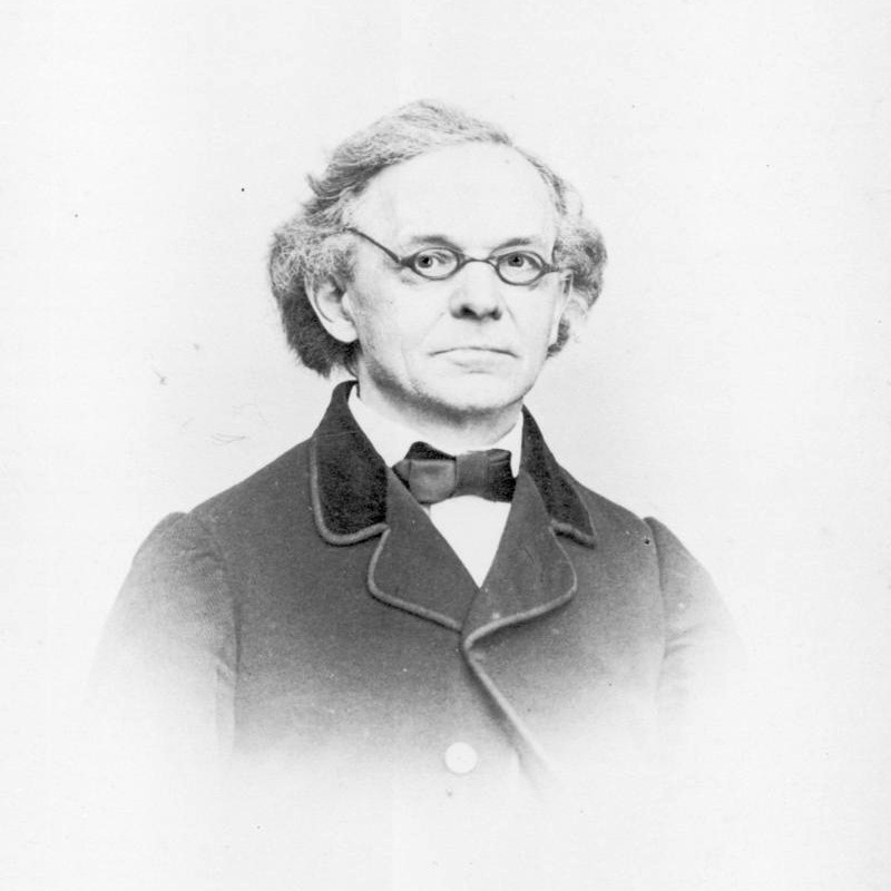 The German pianist and teacher Ernst Friedrich Richter (1808—1879)